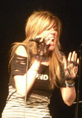 Stephanie Smith at Rocketown